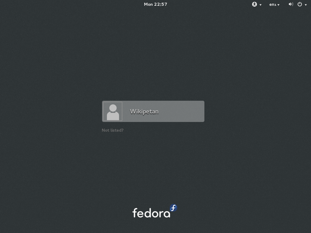 Fedora 20 GDM login screen